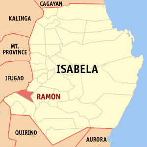 Map of Isabela showing the location of Ramon